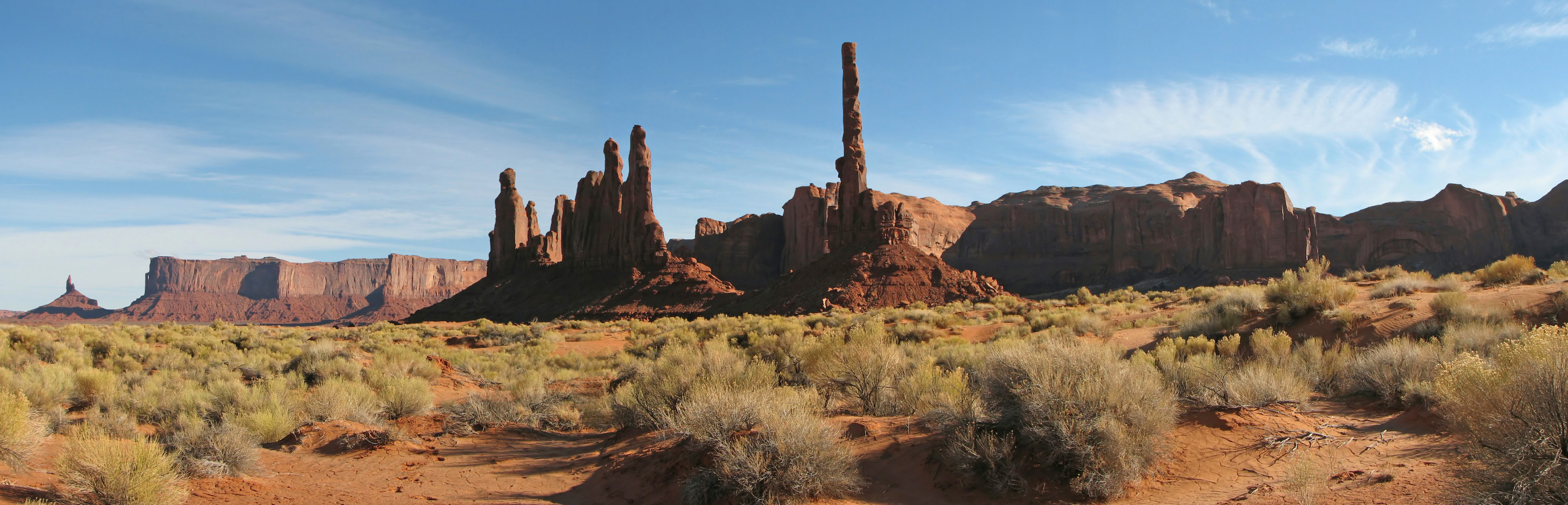 Totem Pole in Monument Valley, Arizona, USA